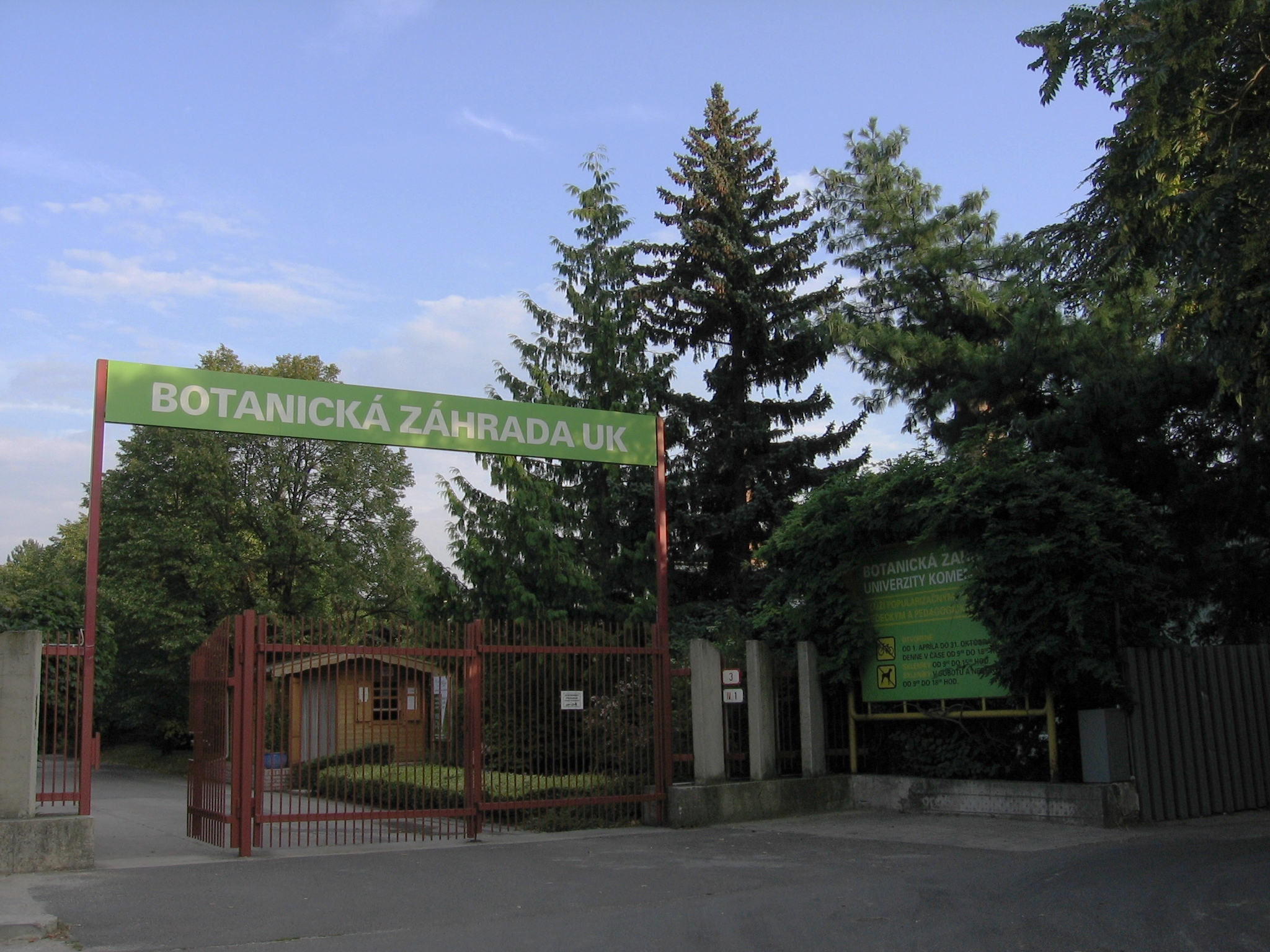 Main gate of the Botanic garden of the Comenius University, Bratislava, Botanická street. Taken on the September 10, 2009.